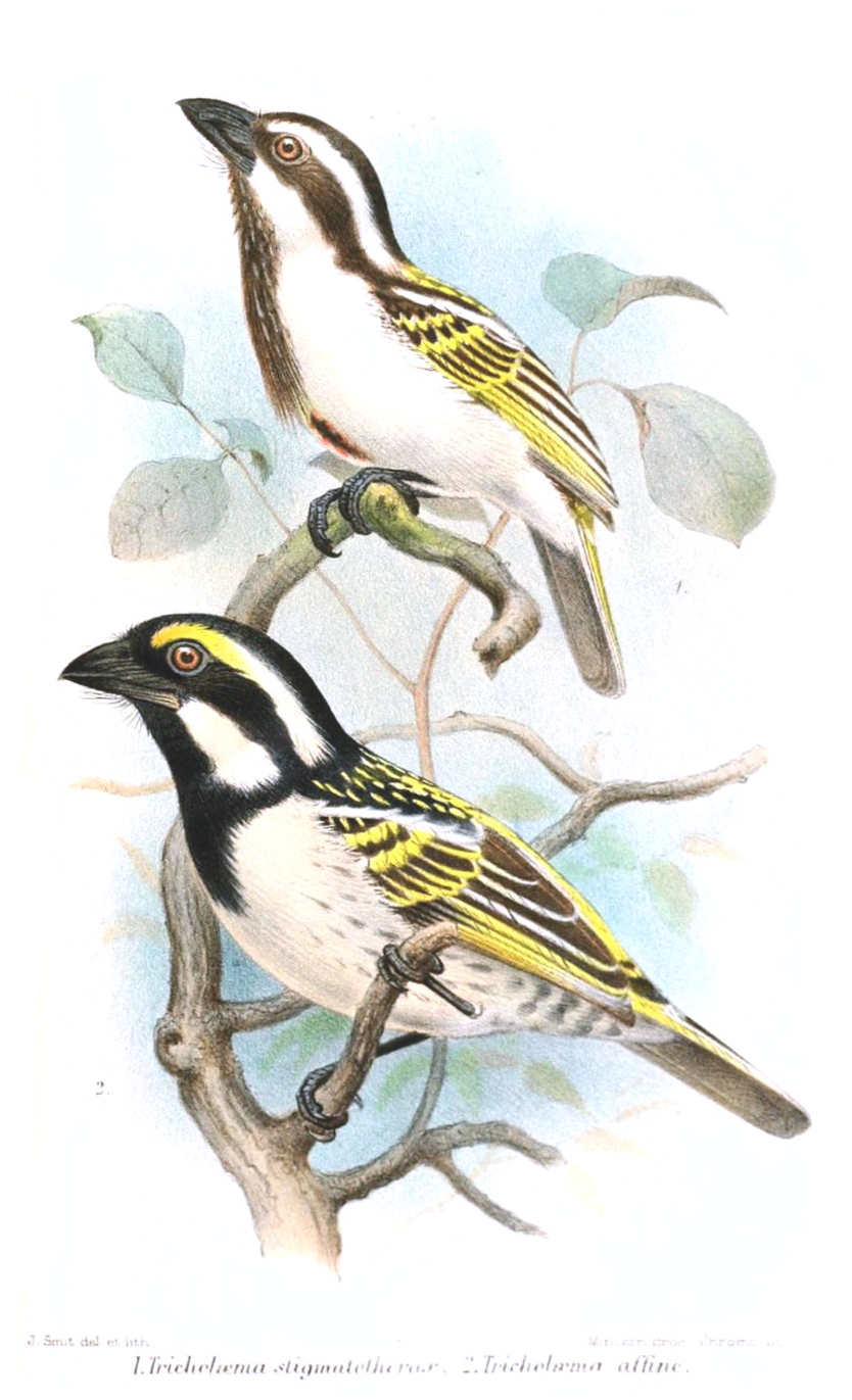 Tricholaema stigmatothorax = Tricholaema melanocephala stigmatothorax, Black-throated Barbet (above); Tricholaema affine = Tricholaema leucomelas affinis, Pied Barbet (below)